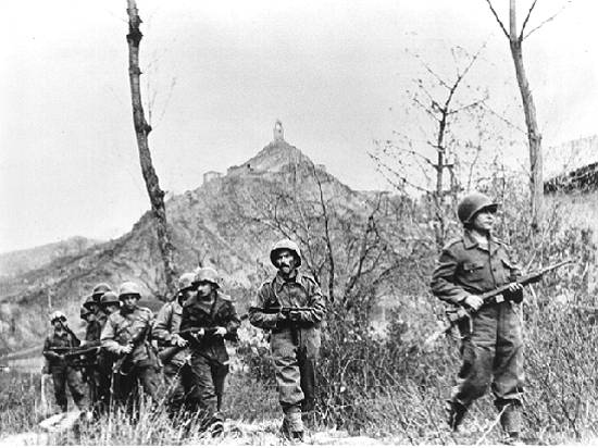 Soldiers of the Brazilian Expeditionary Force during the second assault of the battle of Monte Castello on 29 November 1944, near Torre Corneta, Italy